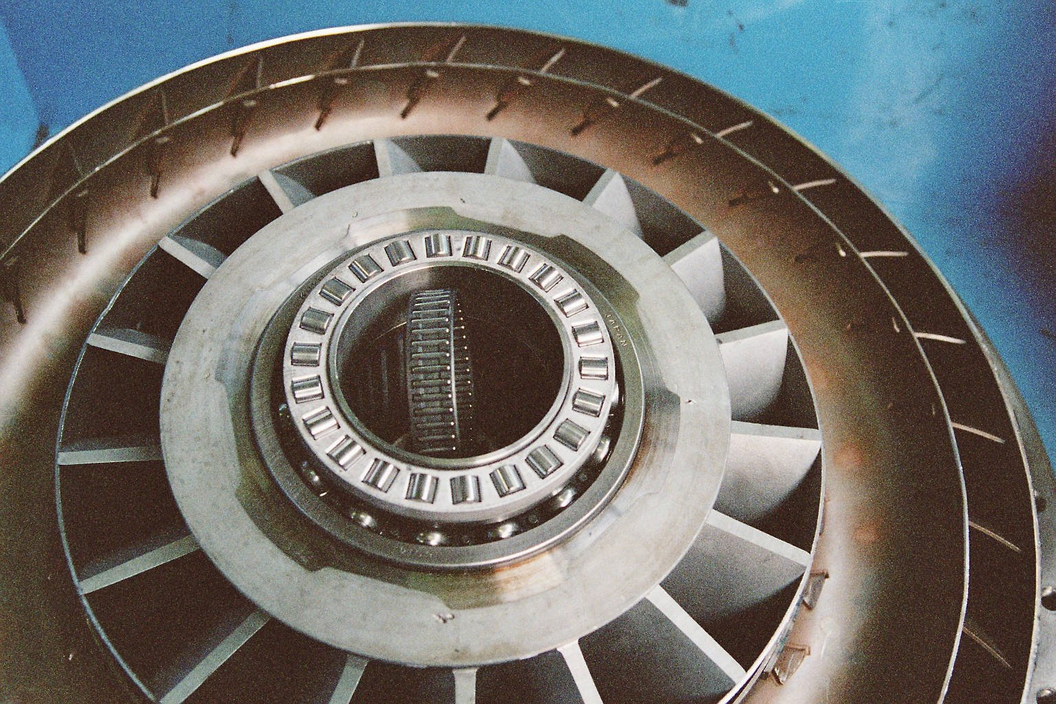 Different rolling-element bearings in a torque converter transmission